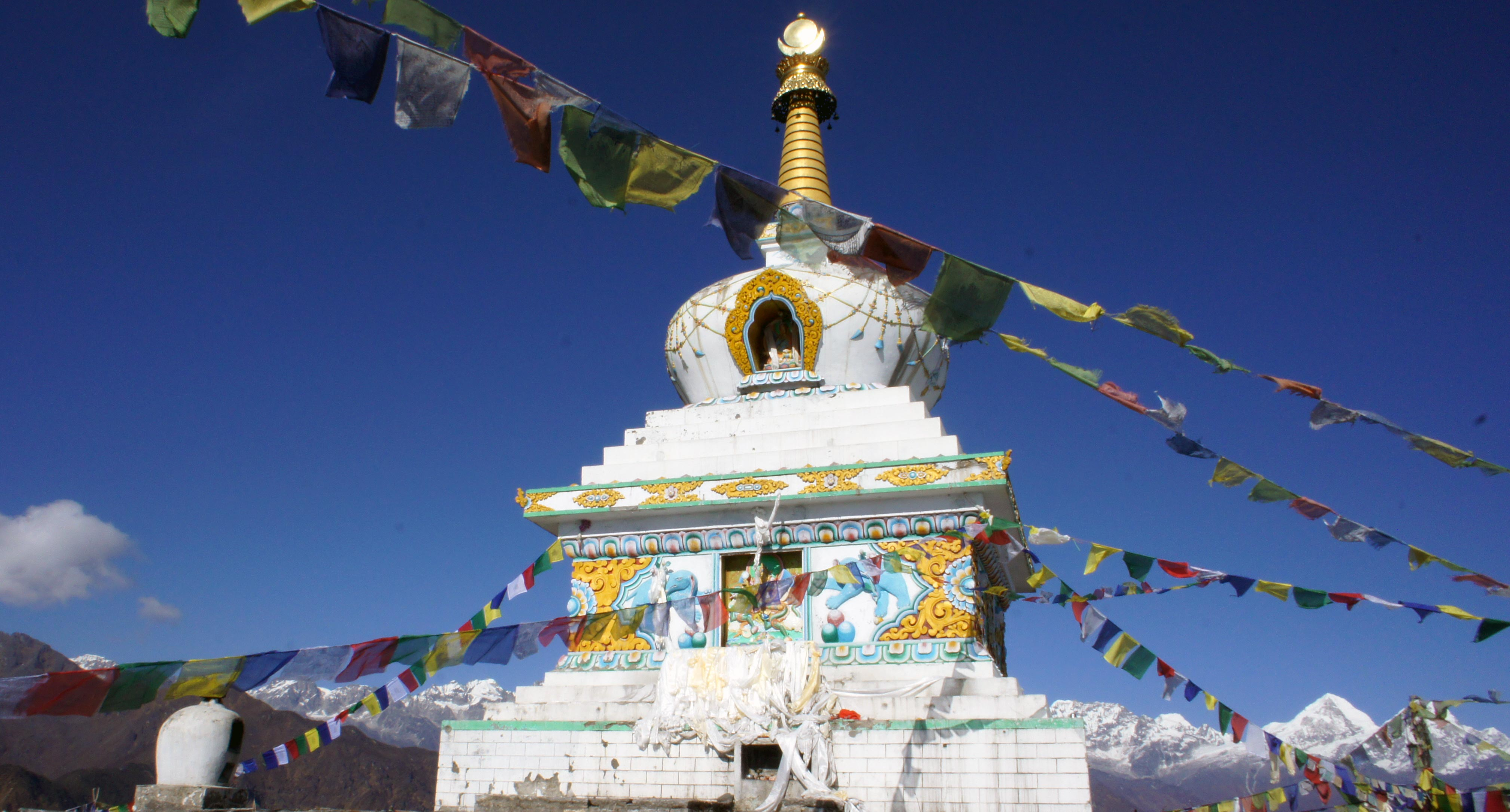 Stupa on top of the Yangri-peak